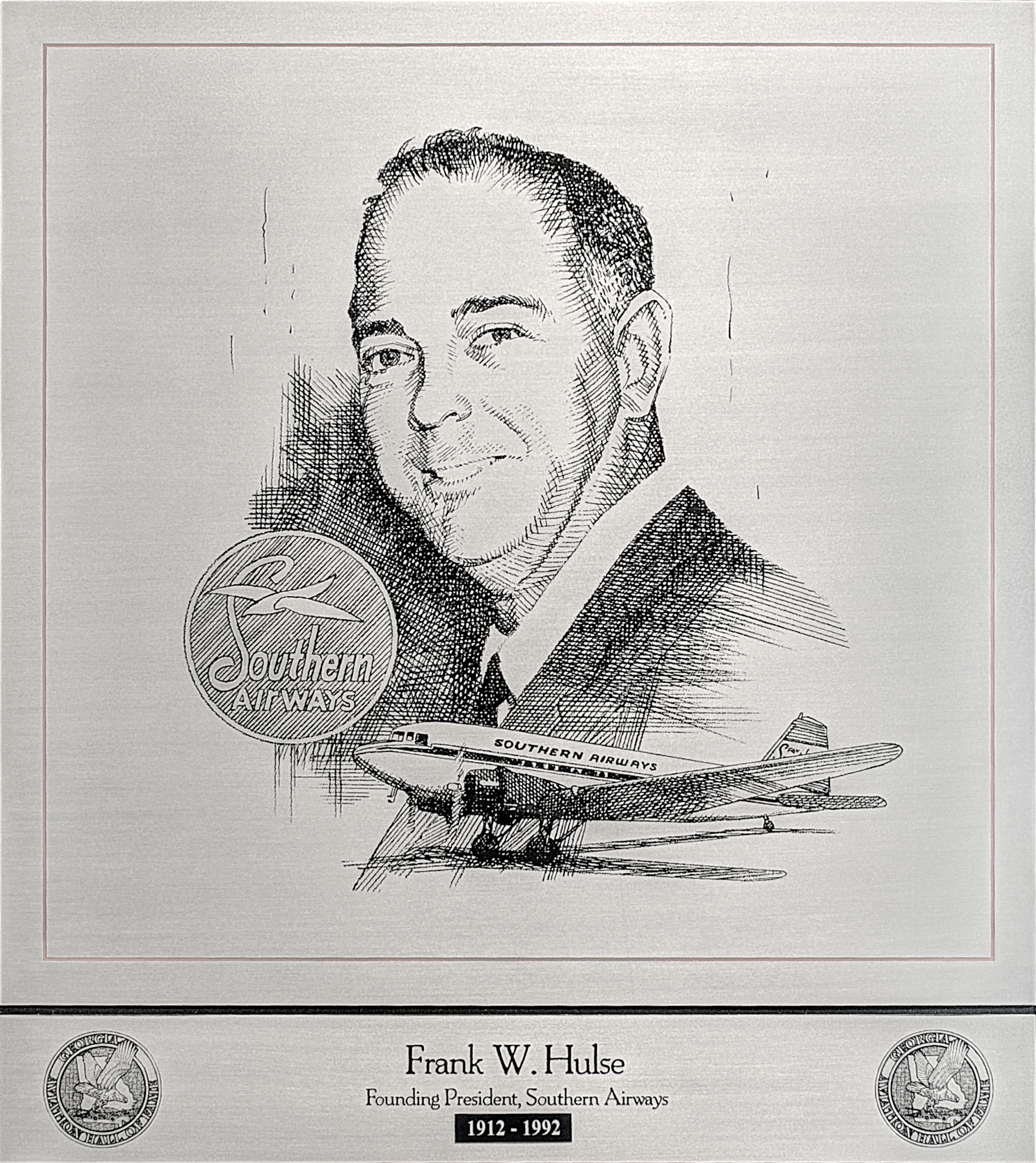 Frank W. Hulse (1912 - 1992); Founding President, Southwest Airways